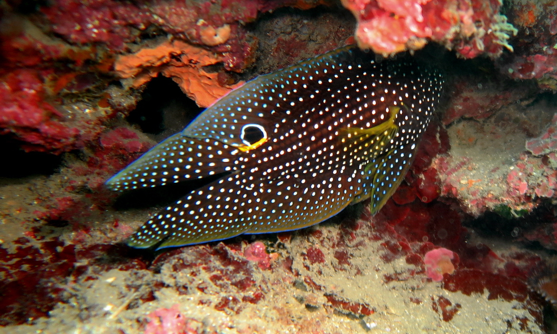 This is the tail of a splendid marine betta (Calloplesiops altivelis). The fish was found at an underwater cave in the south shore of Long-Dong Bay, a famous diving site located at northeast coast of TAIWAN. The photo was taken by Vincent C. Chen on June 6, 2015